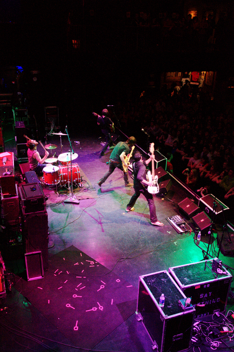 Moving Mountains live @ The House Of Blues in Boston, Mass.